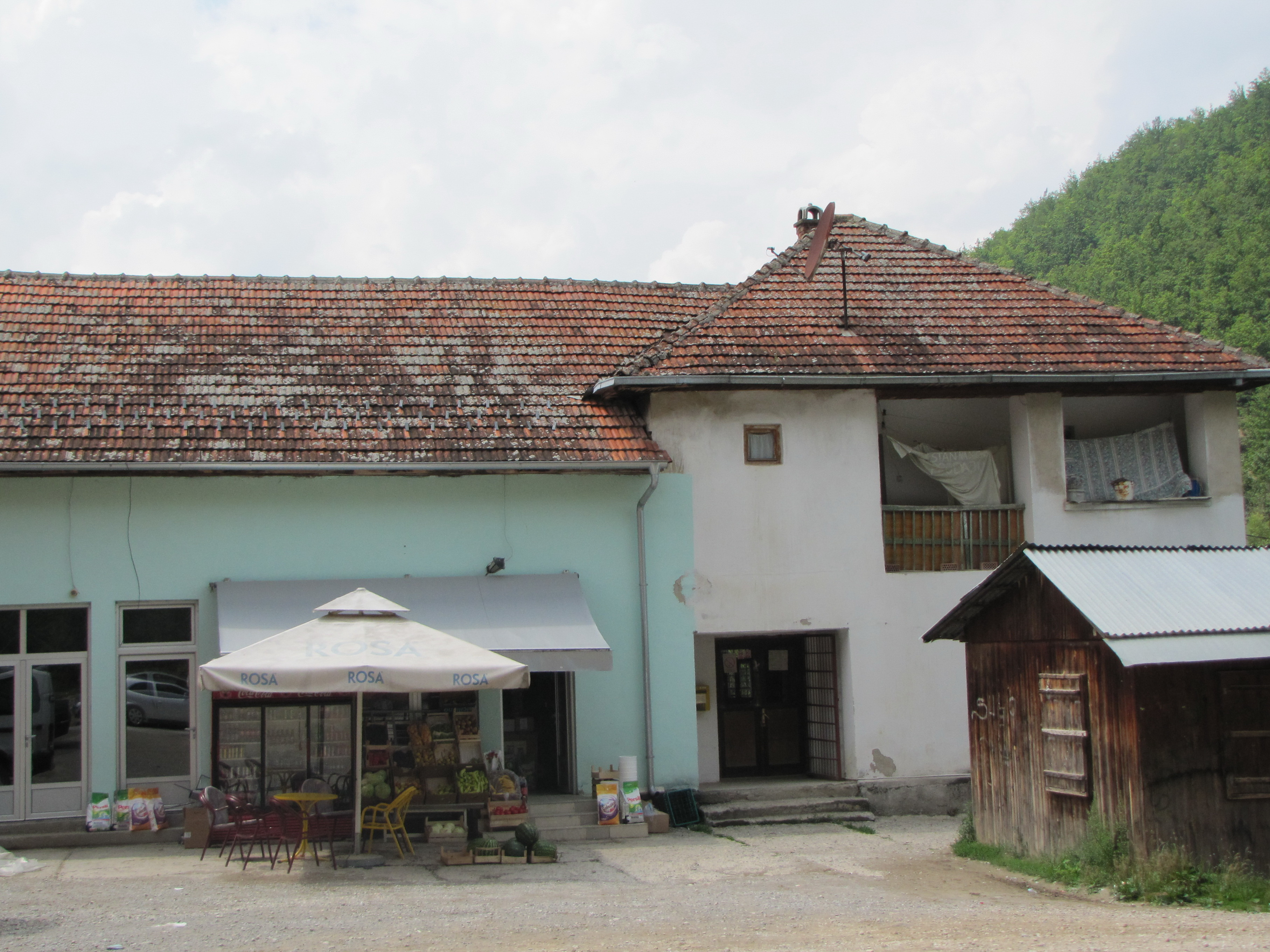 Post office and store in Crkvine.